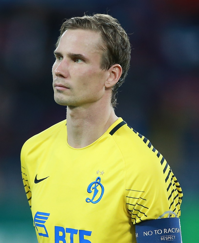 Anton Shunin with FC Dynamo Moscow in a game against PFC CSKA Moscow.